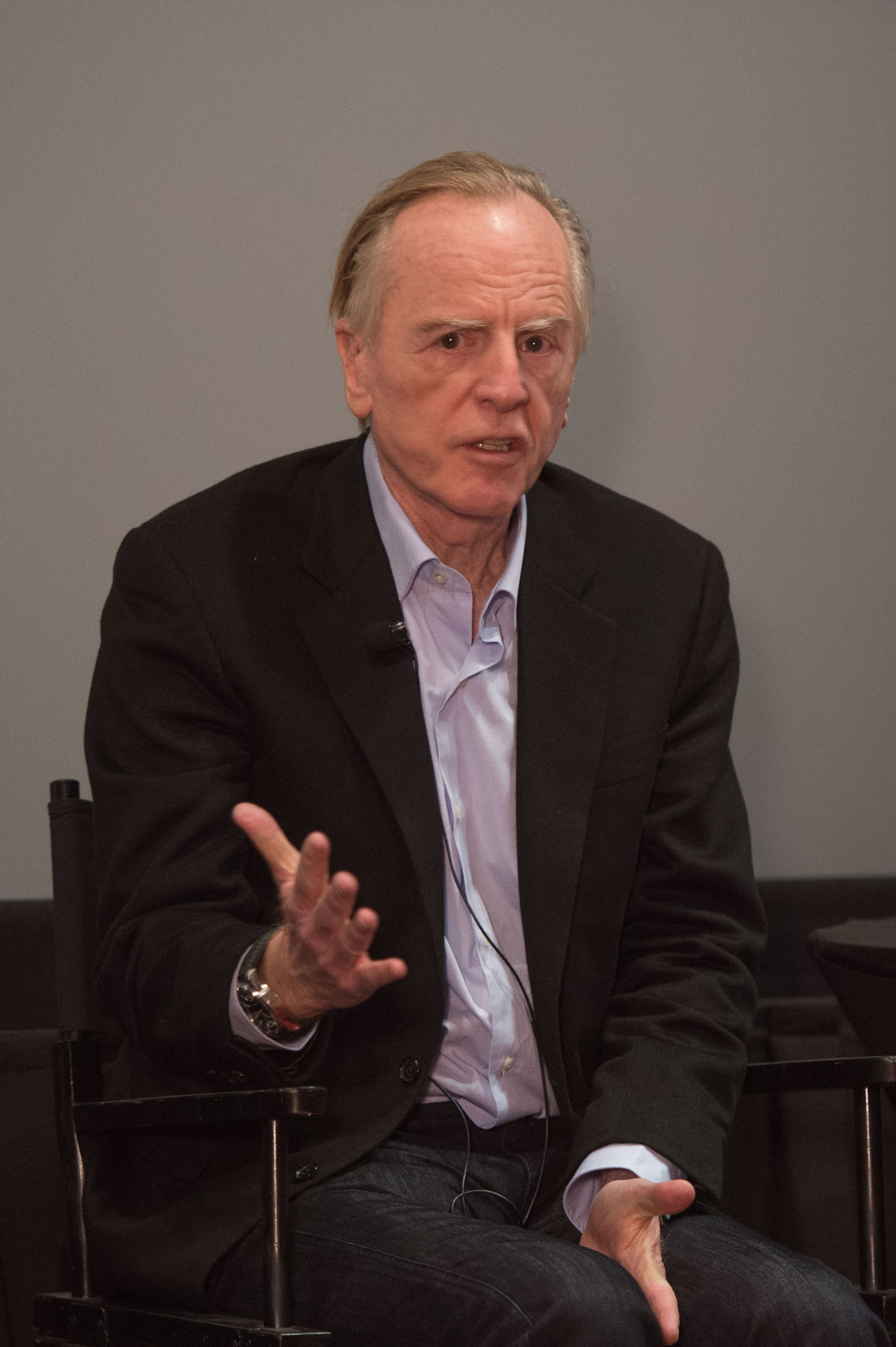 Zeta Interactive co-founder John Sculley (1/30/2014)